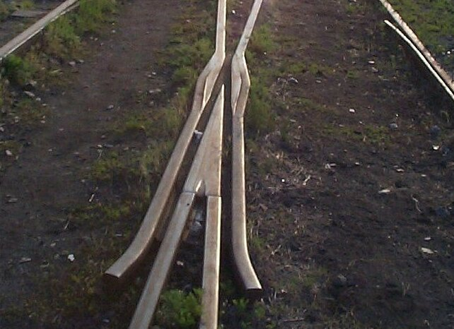 Old mounted frog with casted middle in Vrané nad Vltavou (Line 210).